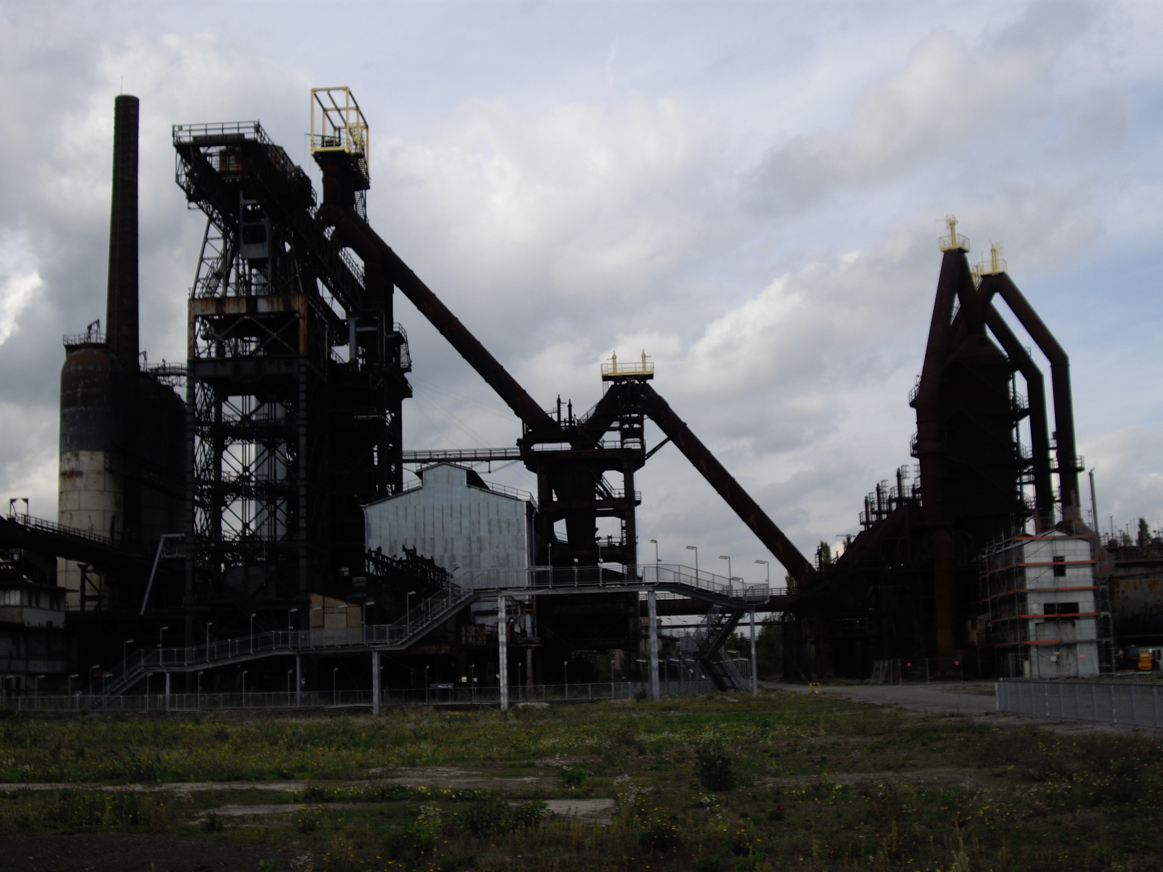 Inside the U4 blast furnace park, in Uckange, Moselle, France.